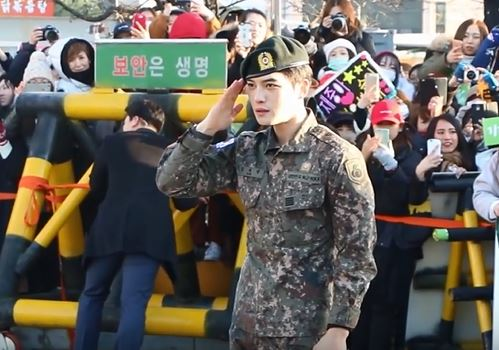 Kim Jaejoong returning from military service on 29 December, 2016